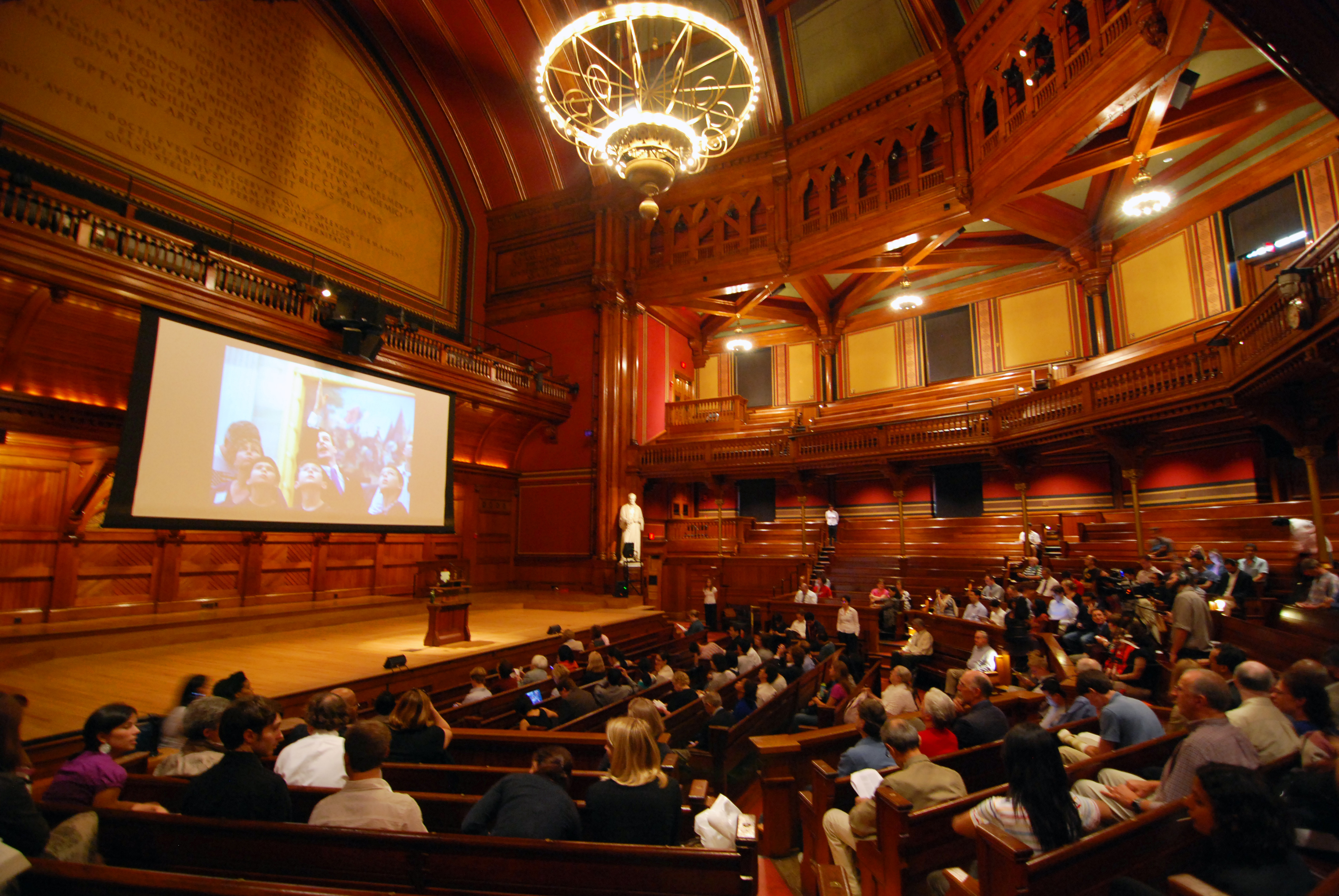 Sanders Theatre Harvard University President's Address 2009